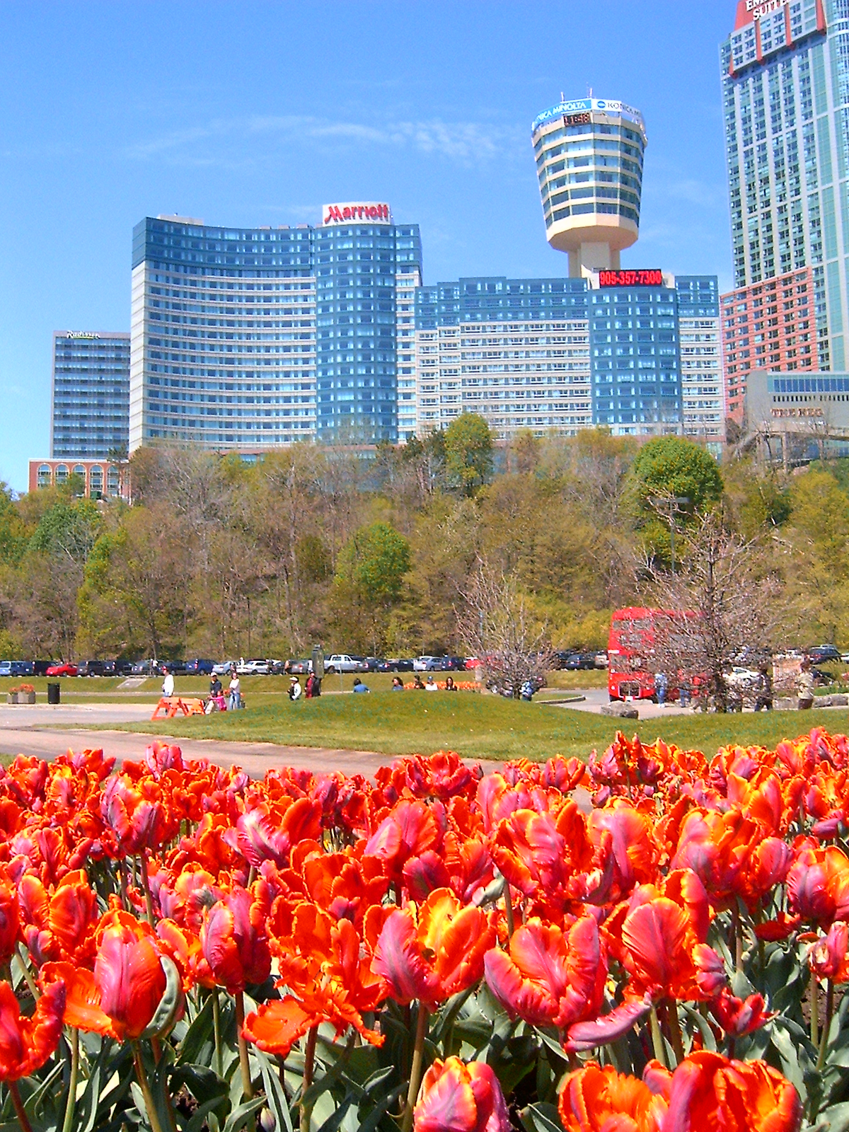 My own pictures